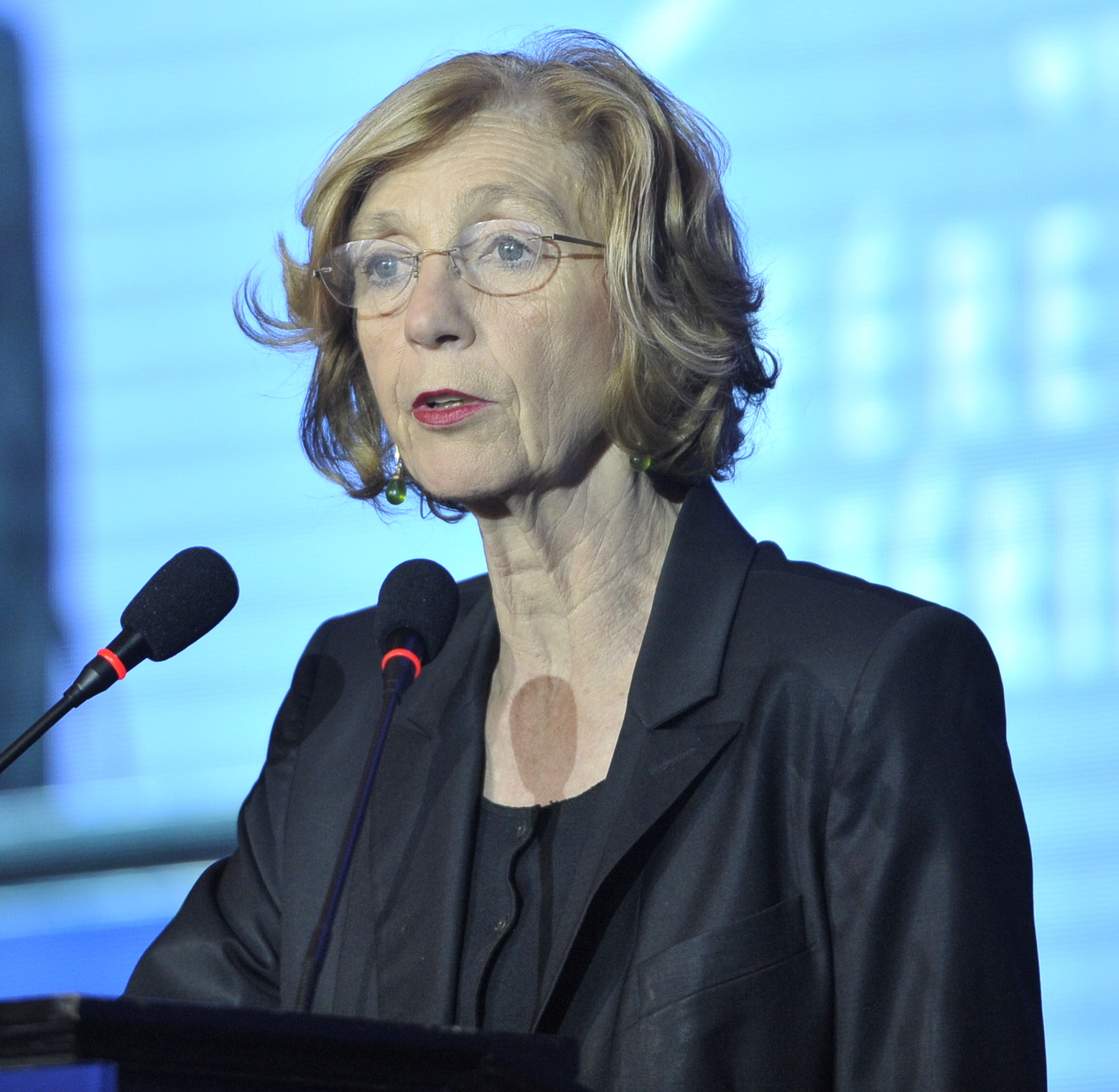 Nicole Bricq - Day 3 of the WTO's Ministerial Conference, Bali, 3 December 2013.